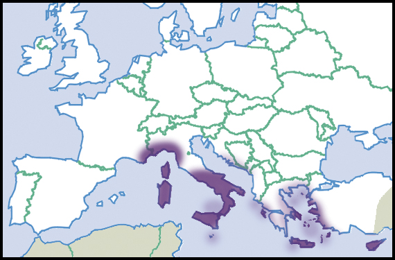 Helix aperta Born, 1778. Distributional range in Europe, scientific state of knowledge of 2012. Source description in English. Light colour indicated rare occurrences or regions where the species could eventually be expected to occur. Dark colour indicated relatively reliable occurrences, as well as regions where the species was expected to occur, and where the species was not known to be extremely rare. Dark colour indications were not necessarily based on published records. Species summary in AnimalBase